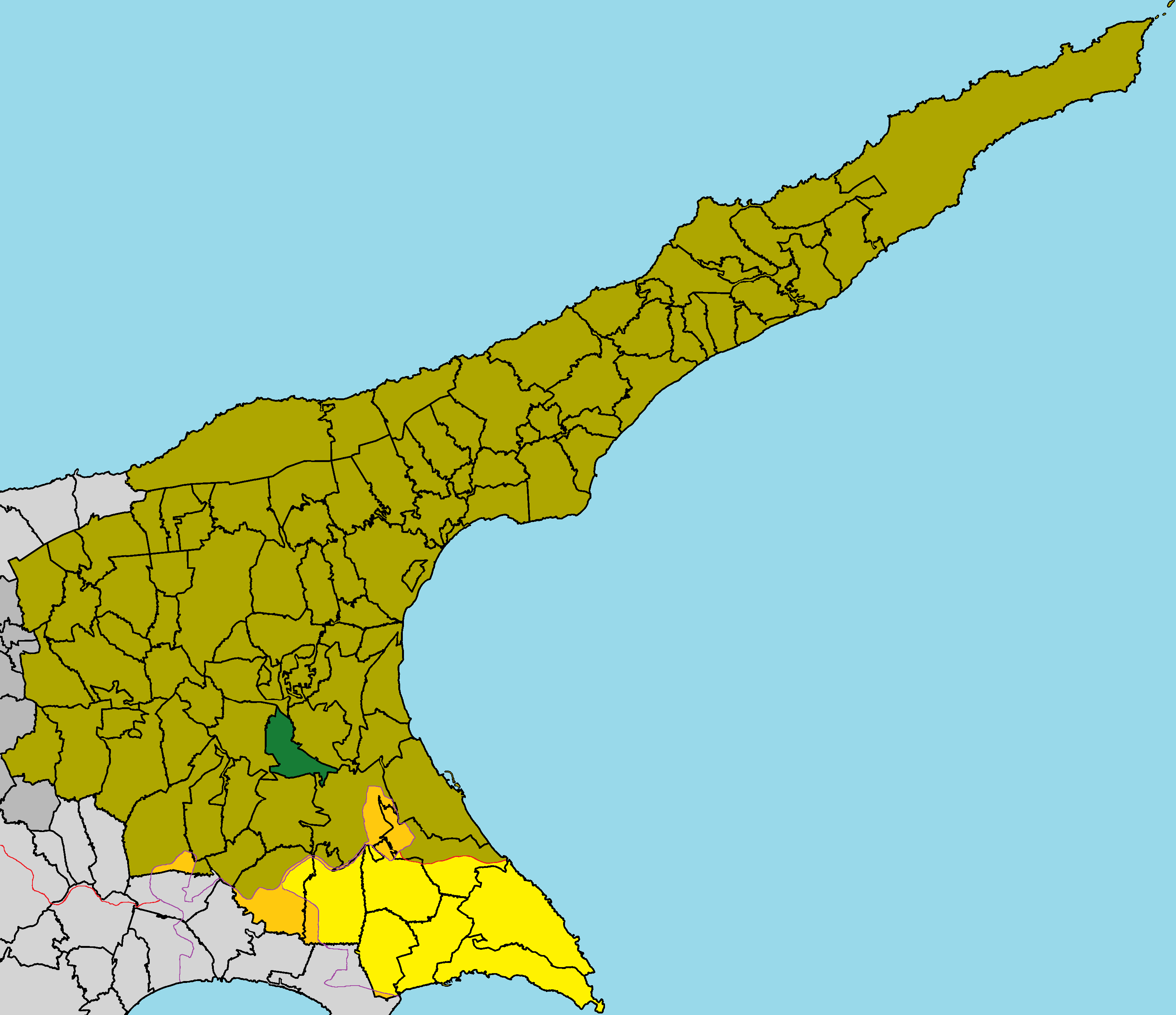 Gaidouras in Famagusta District (de jure).